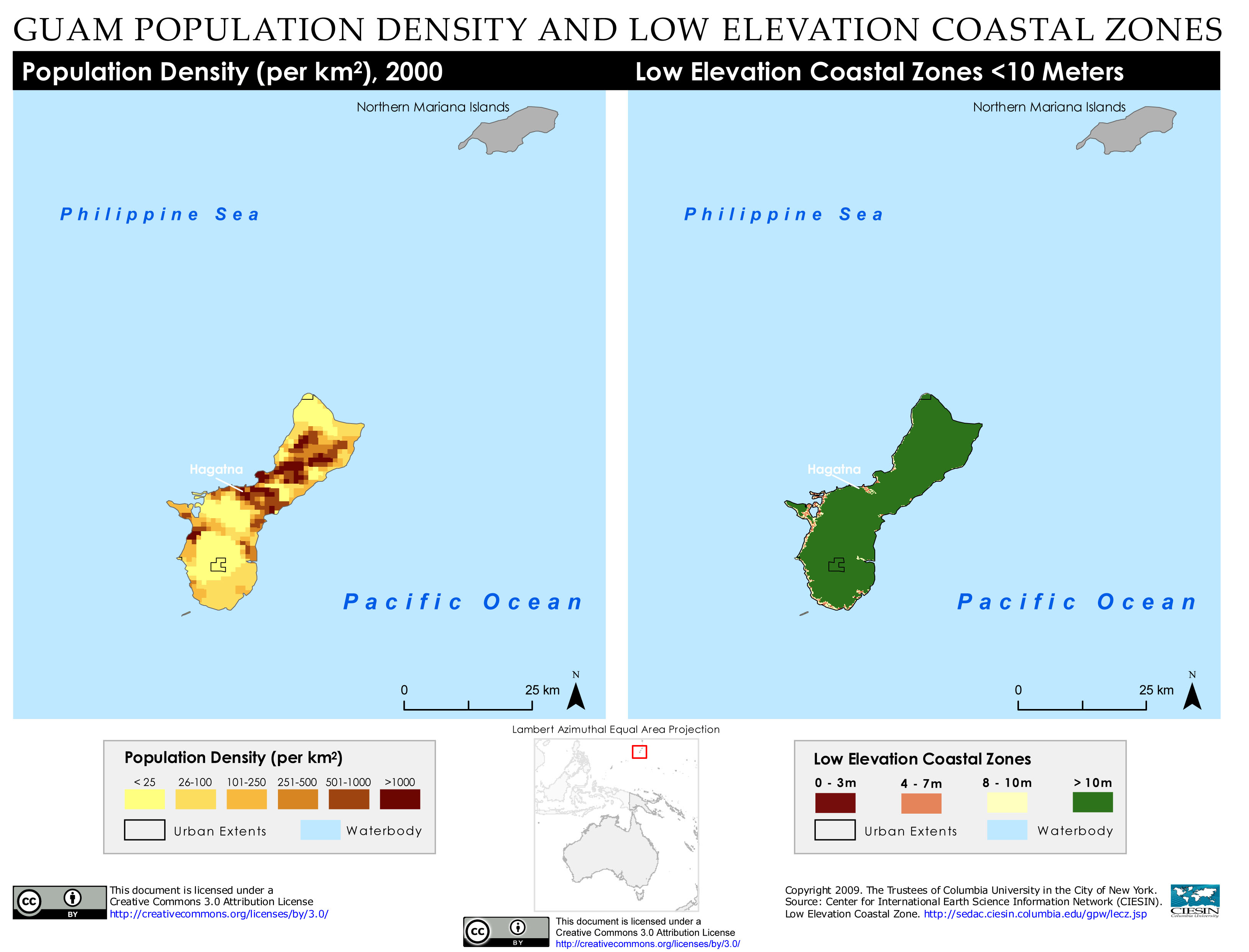 Guam: Population Density and Low Elevation Coastal Zones